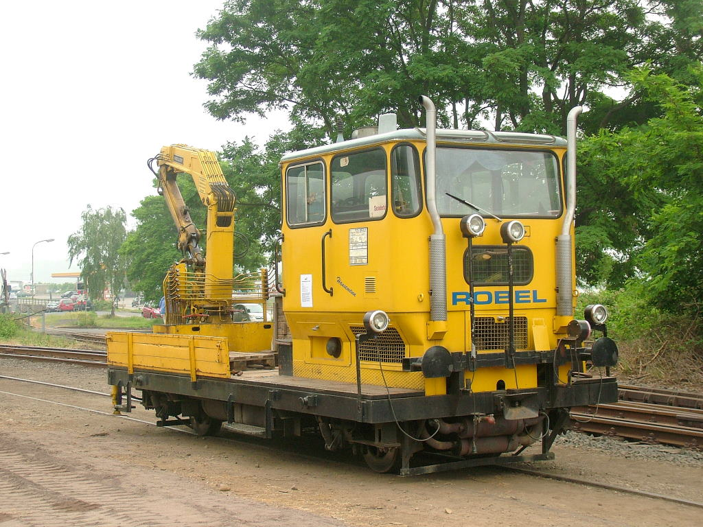 track maintenance vehicle Klv 53-0592 rebuilt for narrow gauge in Brohl, Germany